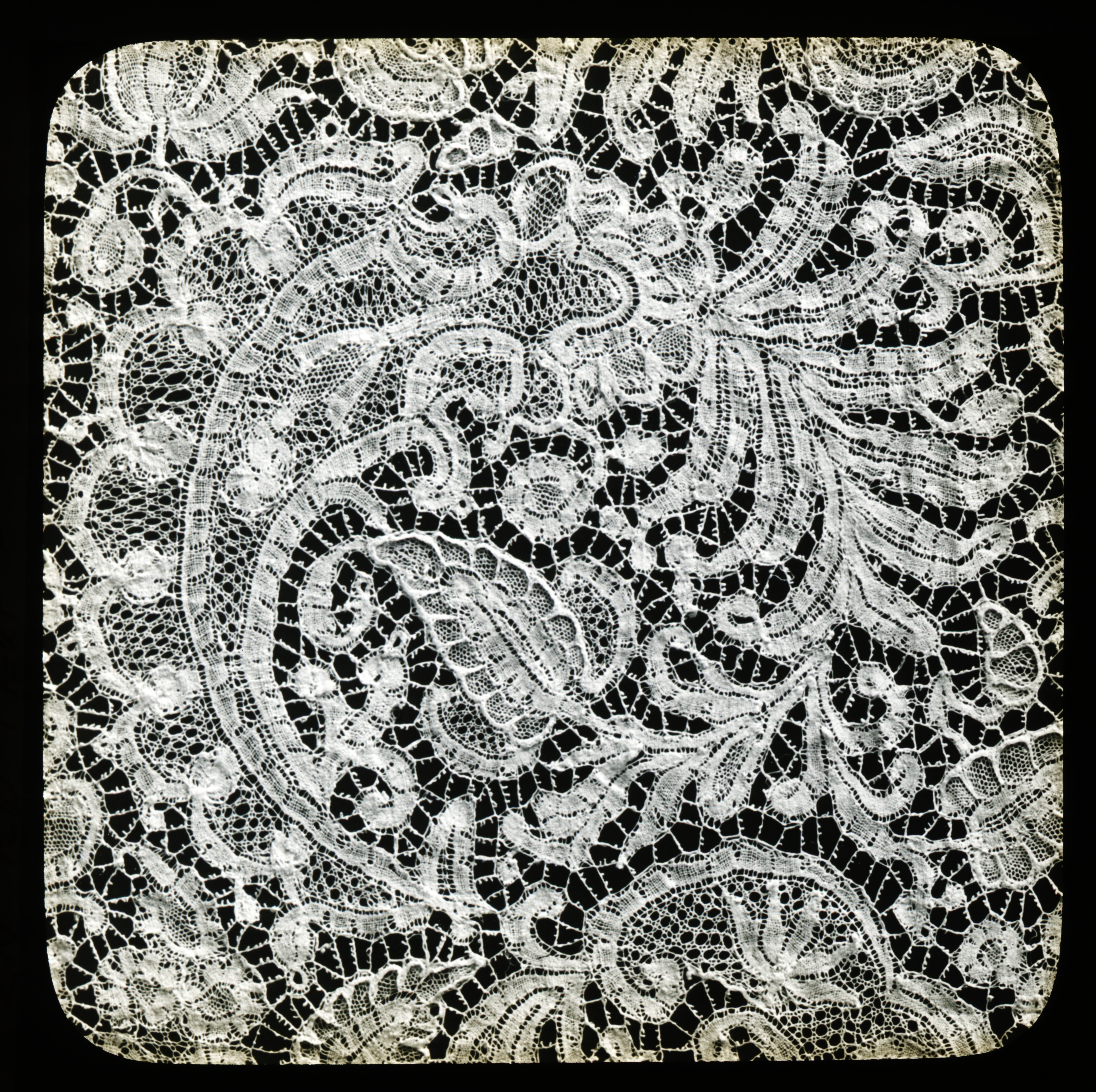 Brussels lace, mid 18th century